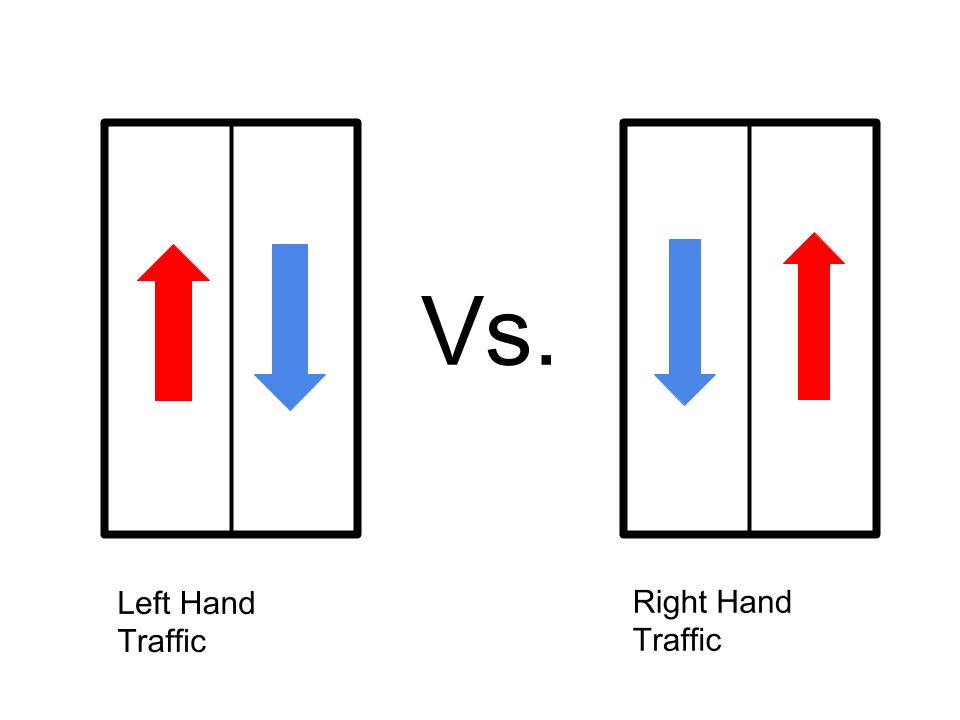 Left hand traffic or rht